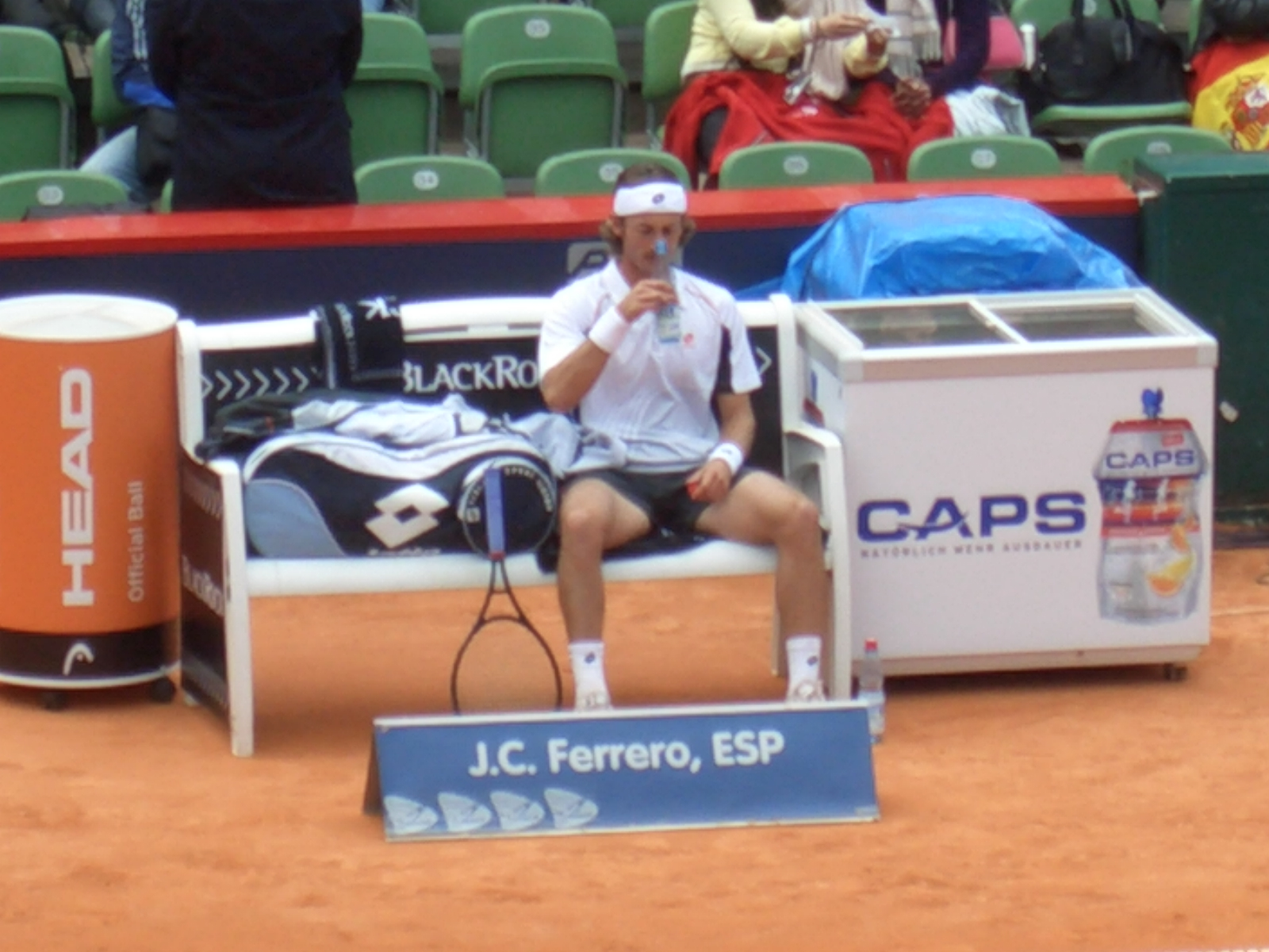 Juan Carlos Ferrero at the Hamburg Masters 2007